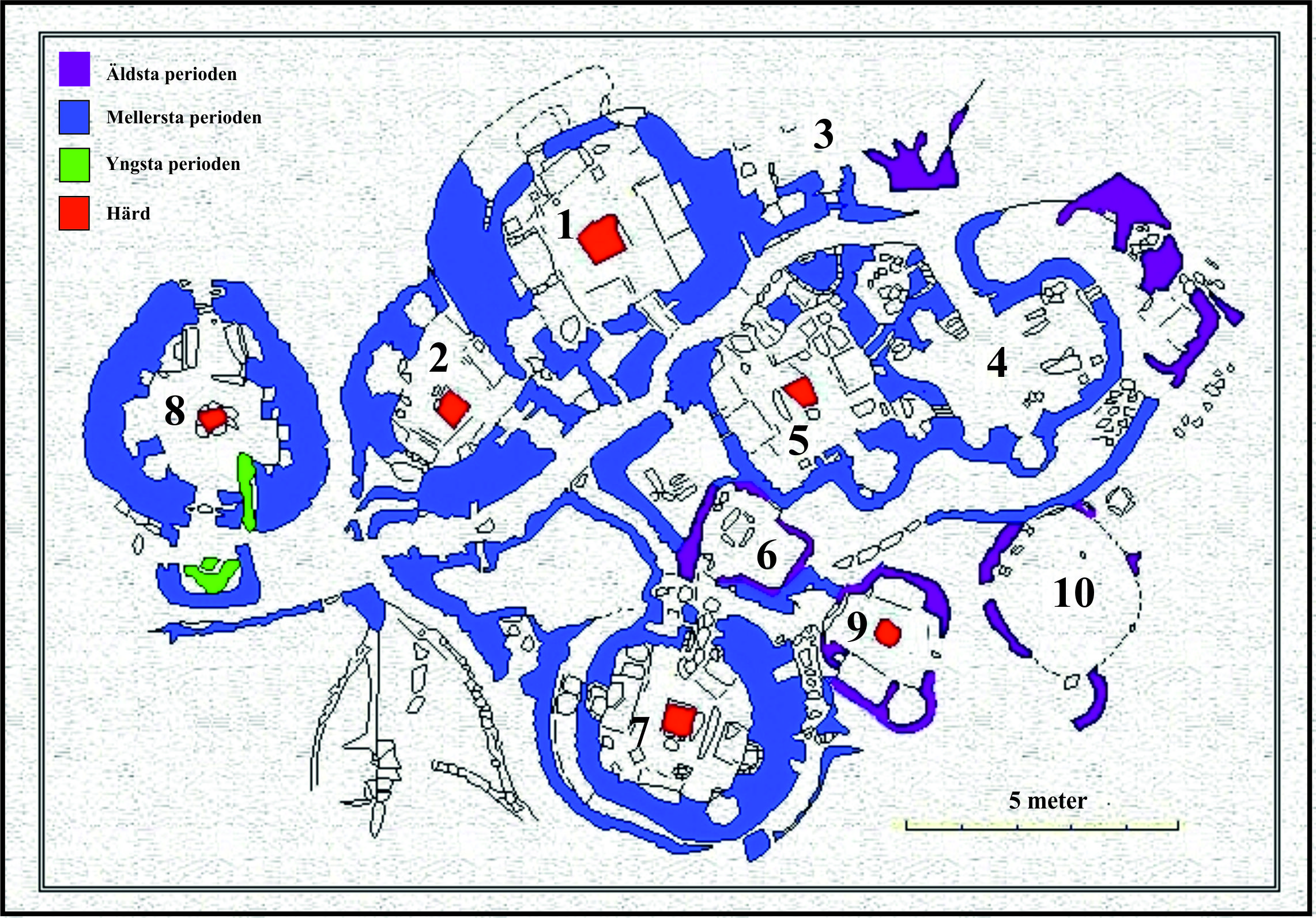 Plan over the neolithic village at Skara Brae 3180 - 2500 BC